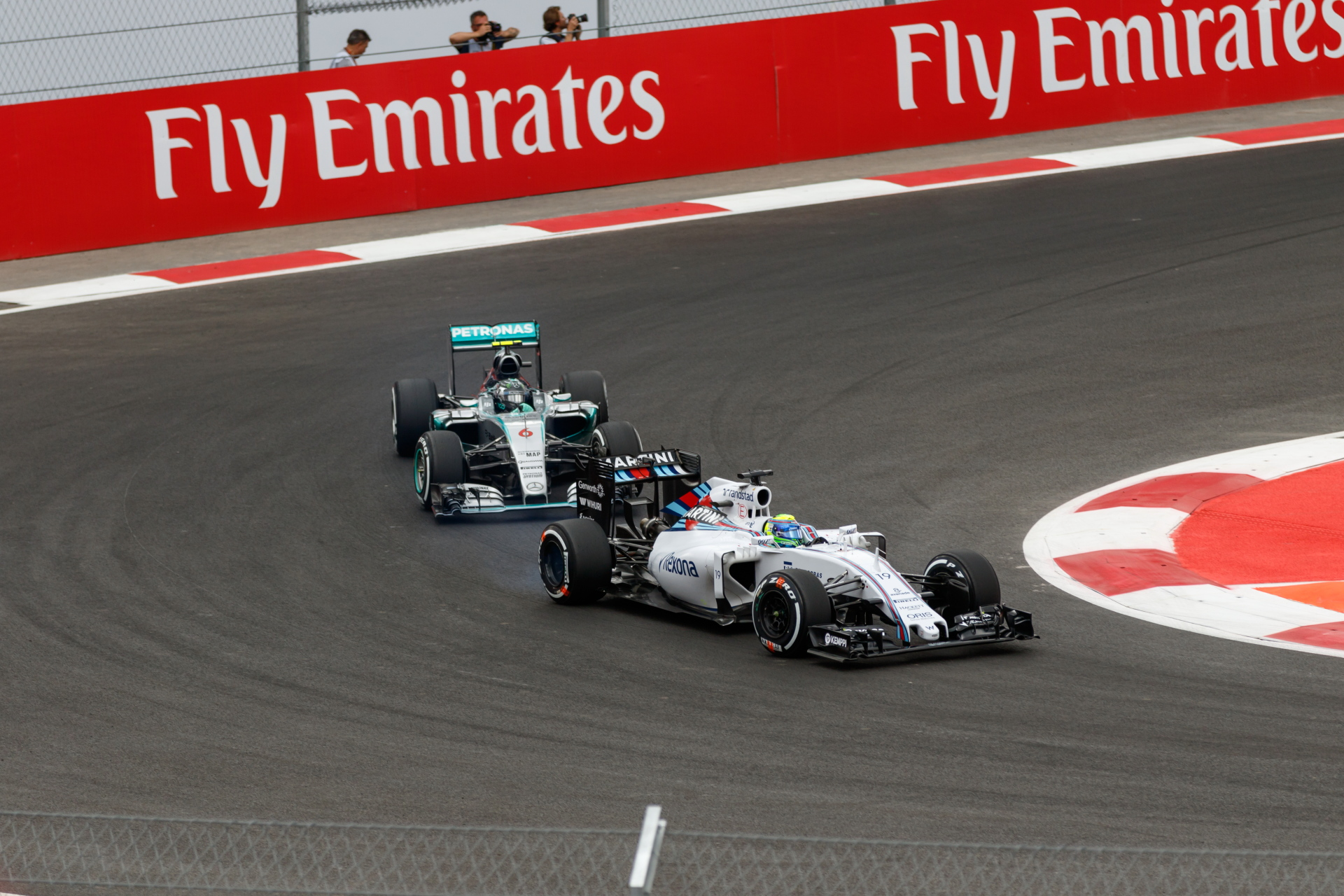 Felipe Massa and Nico Rosberg at the 2015 Mexican Grand Prix